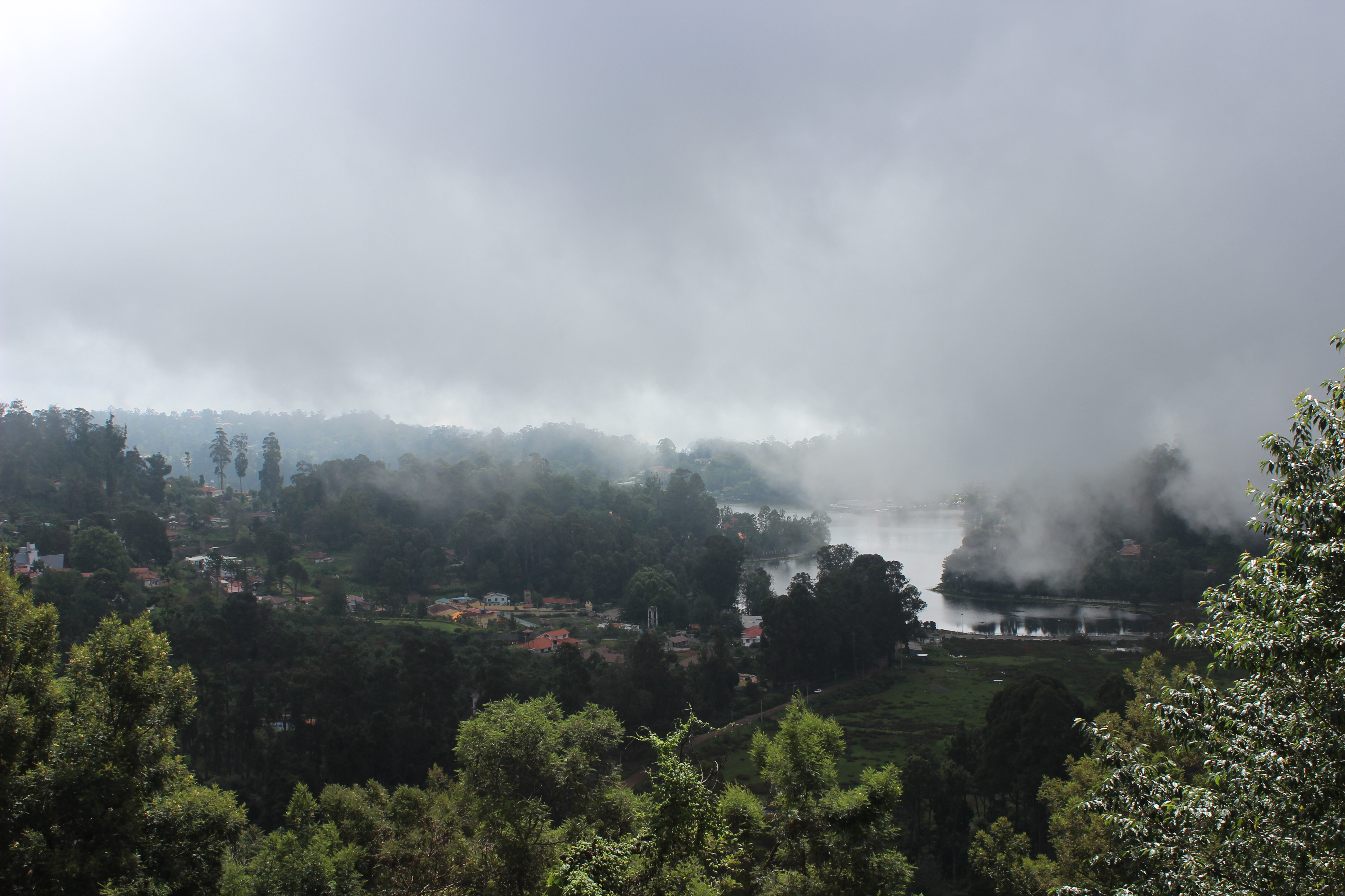 Upper Lake View in Kodaikanal